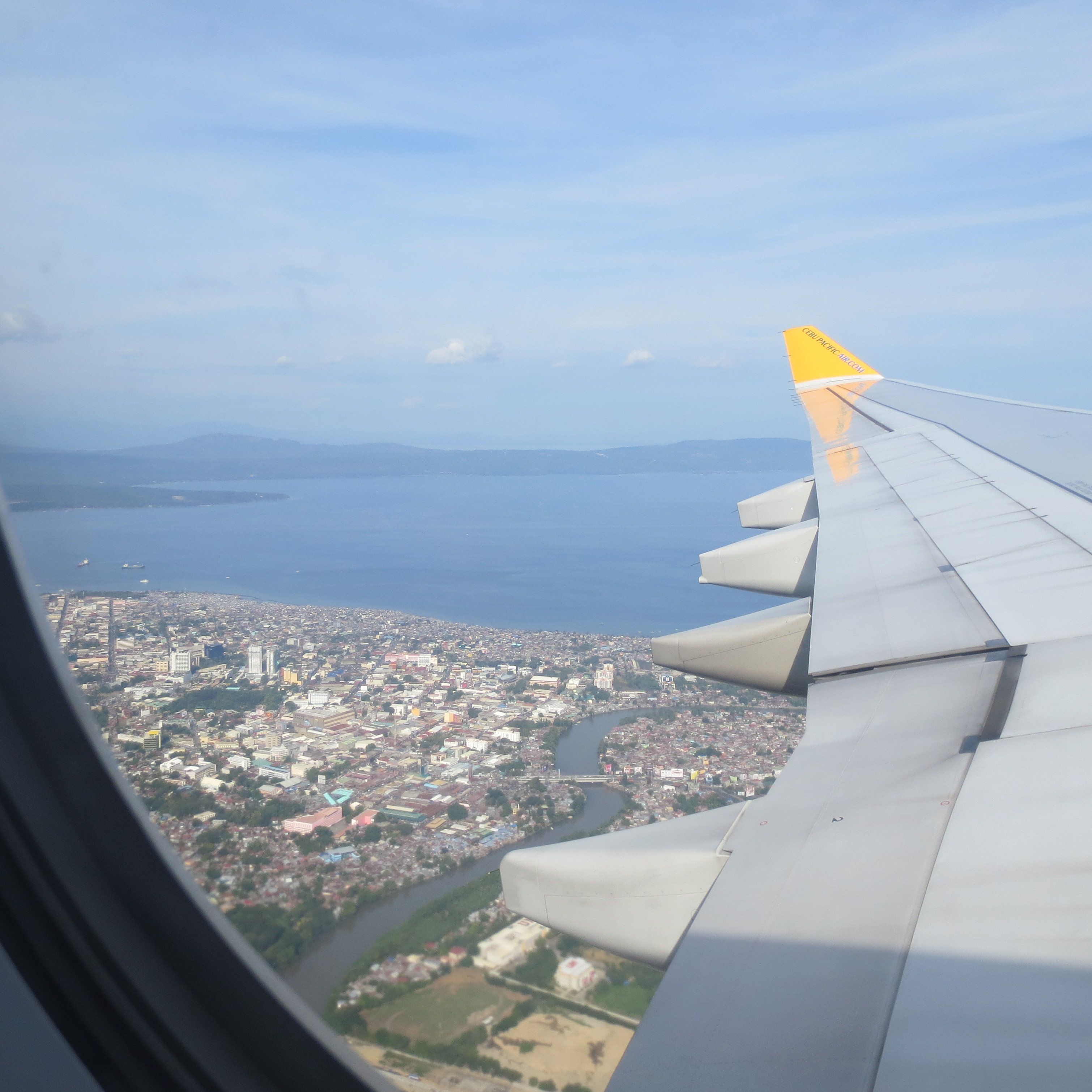 Aerial view on Davao City, Davao River, Bankerohan Bridge, Brgy. Poblacion, Agdao